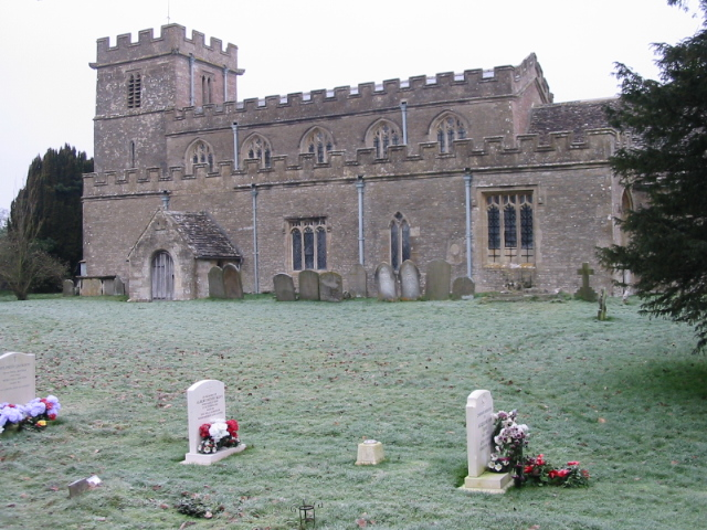 All Saints' parish church, Oaksey, Wiltshire, seen from the southeast